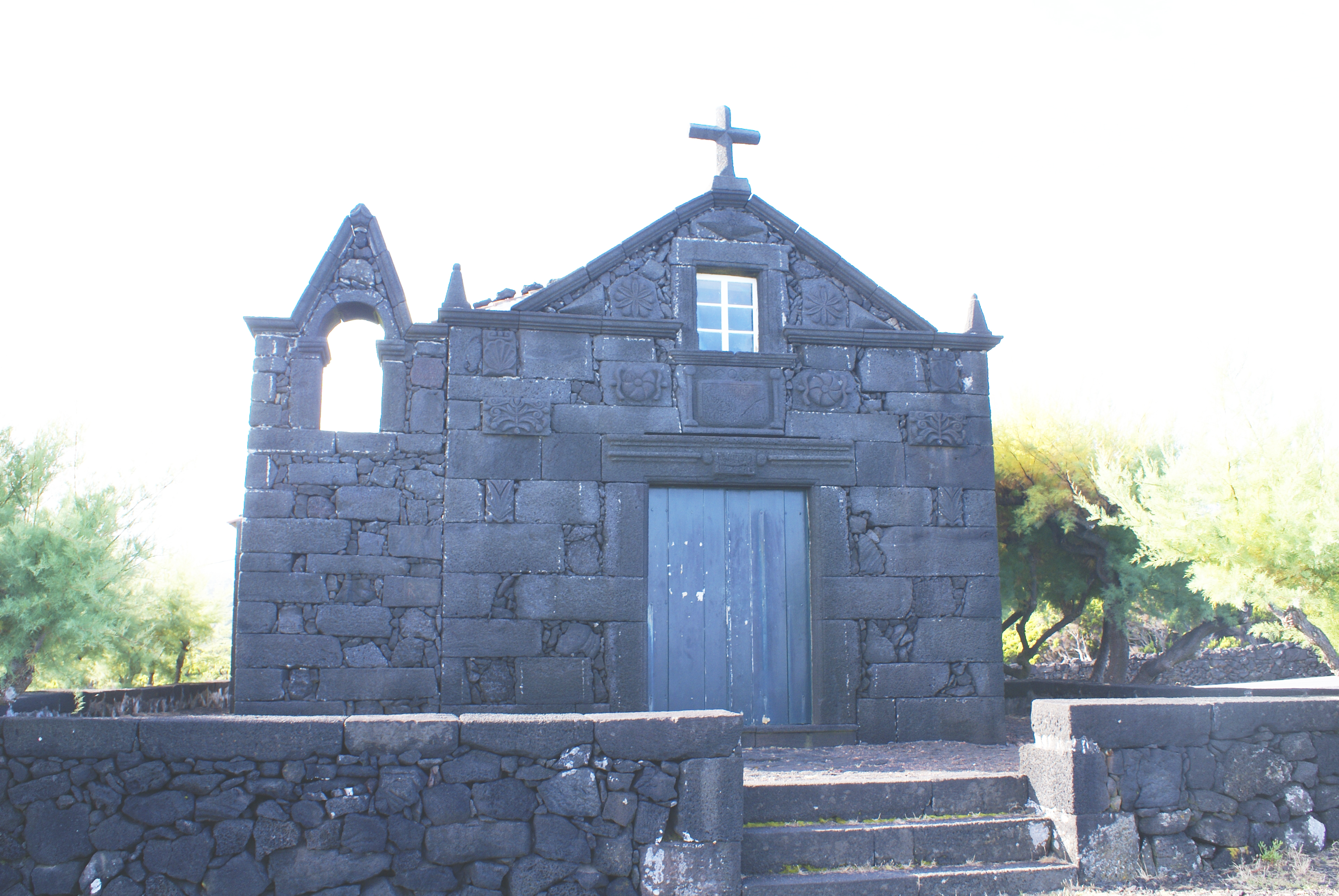 Located within the Paisagem Protegida de Interesse Regional da Cultura da Vinha da Ilha do Pico, the Chapel of São Mateus da Costa, Santa Luzia, São Roque do Pico, Pico (Azores), Portugal